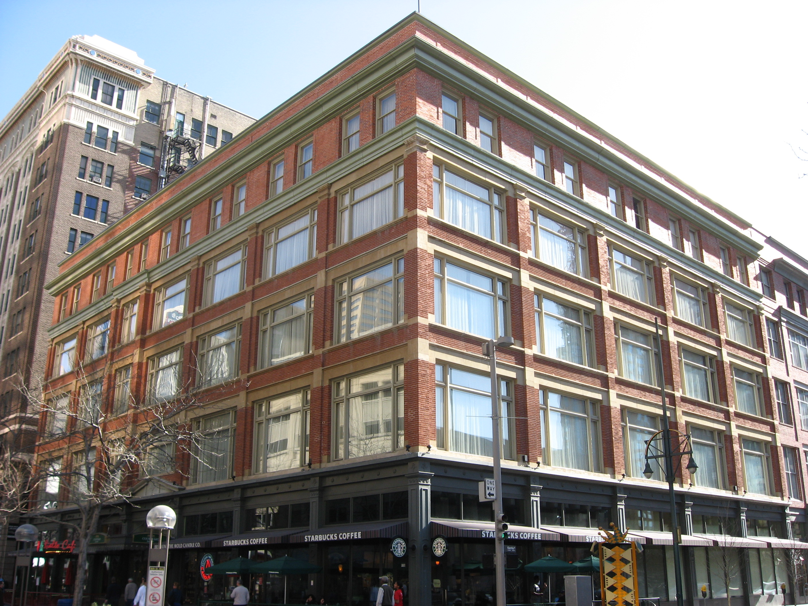 The Joslin Dry Goods Company Building, located at the southern corner of the intersection of Curtis Street and the 16th Street Mall in Denver, Colorado, United States. Built in 1887, the building is listed on the National Register of Historic Places and is now Courtyard Denver Downtown.